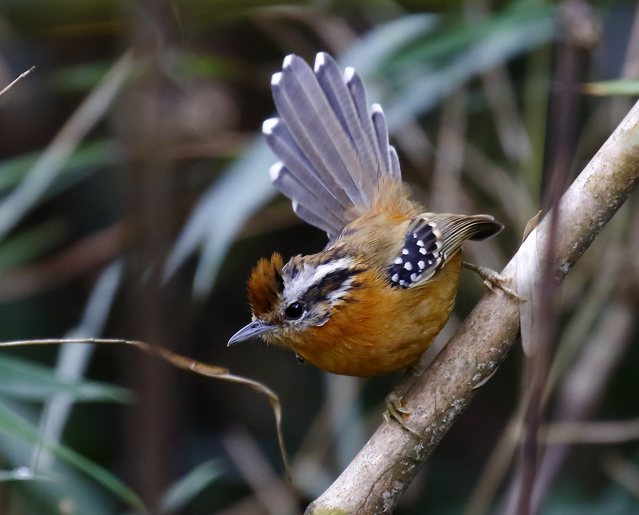 Bertoni's antbird (female) at Salesópolis, SP, Brazil